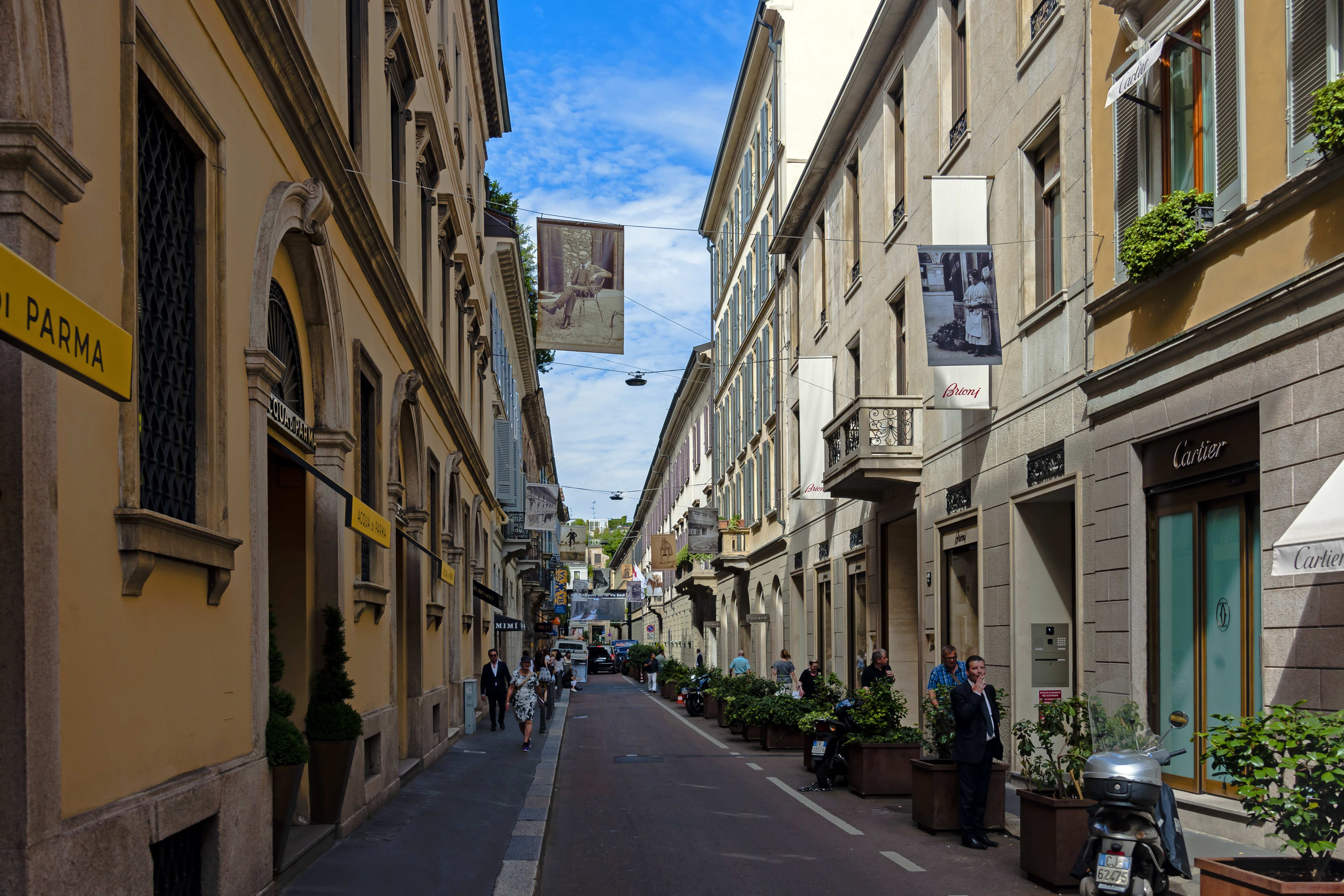 Looking north along Via Gesù in Milan's Quadrilatero della moda